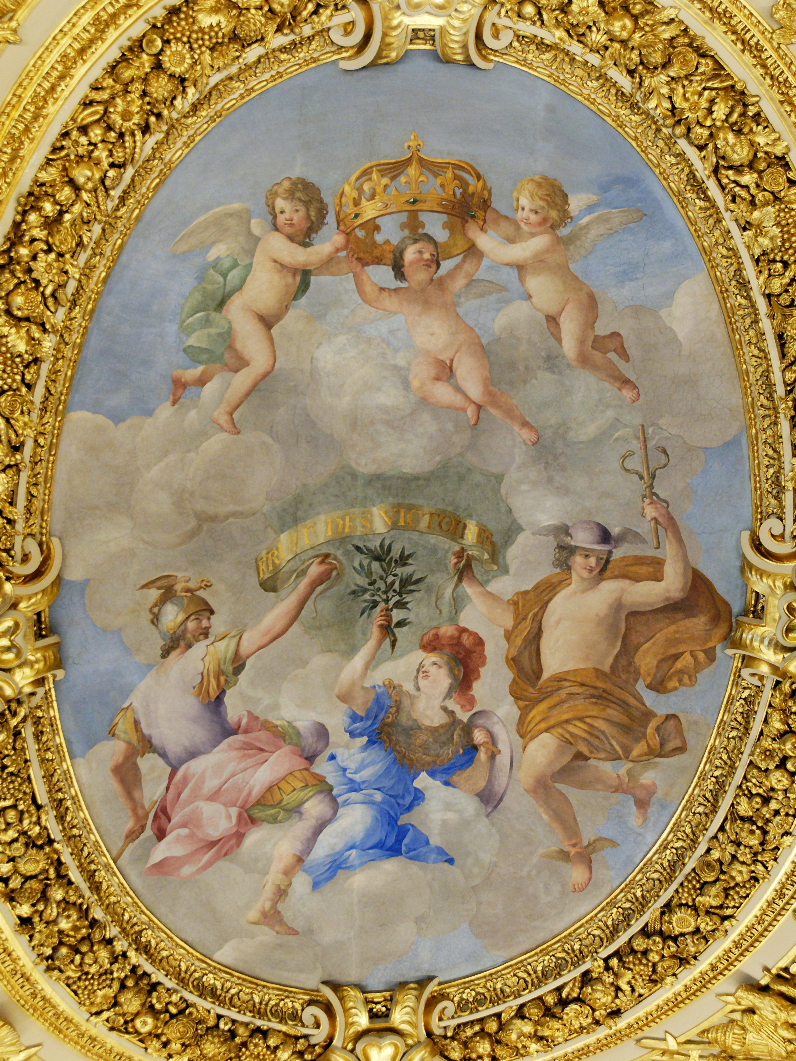 Allegory of the Treaty of the Pyrenees.